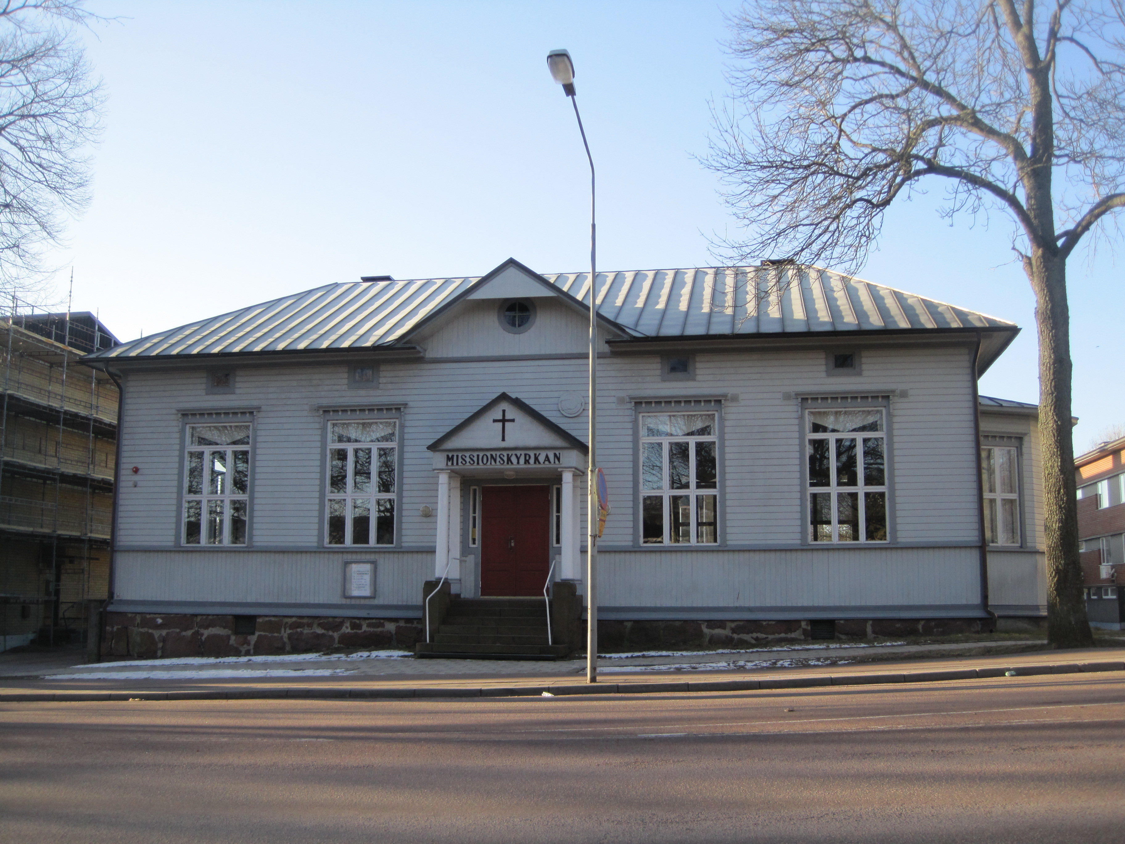 Missionskyrkan, Mariehamn, Finland check usage Address Missionskyrkan på Åland Storagatan 10 22100 Mariehamn Finland Date8 April 2012SourceOwn work. (→ weitere 1,850 Bilder von mir in der Galerie)AuthorStefan FlöperPermission (Reusing this file) cc-by-sa-3.0, gfdl 1.2+